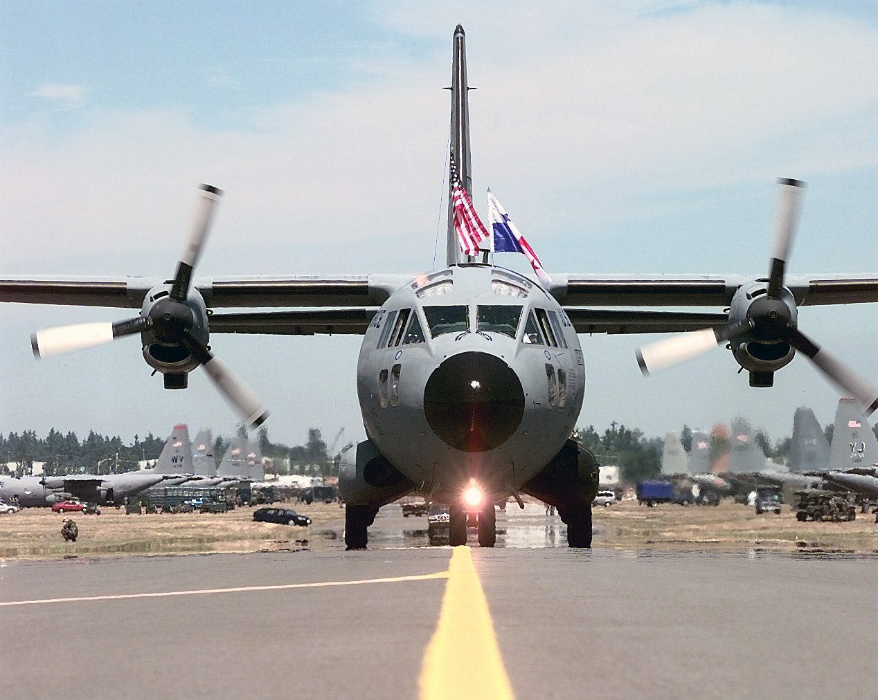 A US Air Force (USAF) 24th Wing (WG), Howard Air Force Base (AFB), Panama (PAN), C-27A Spartan taxies in with flags flying after landing at McChord AFB, Washington (WA), to participate in the USAF Air Mobility Command (AMC) sponsored Rodeo 98 airlift competition.